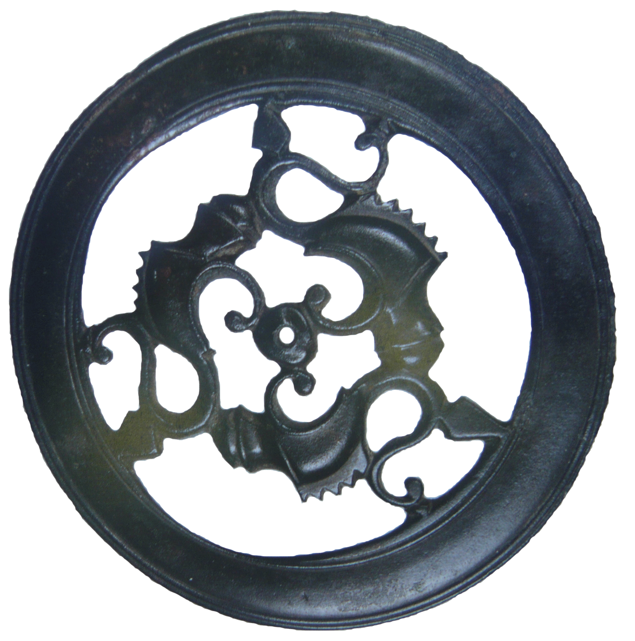 "Phalère au triton" discovered in 1963 in Kerilien, Plounéventer, Finistère, France.